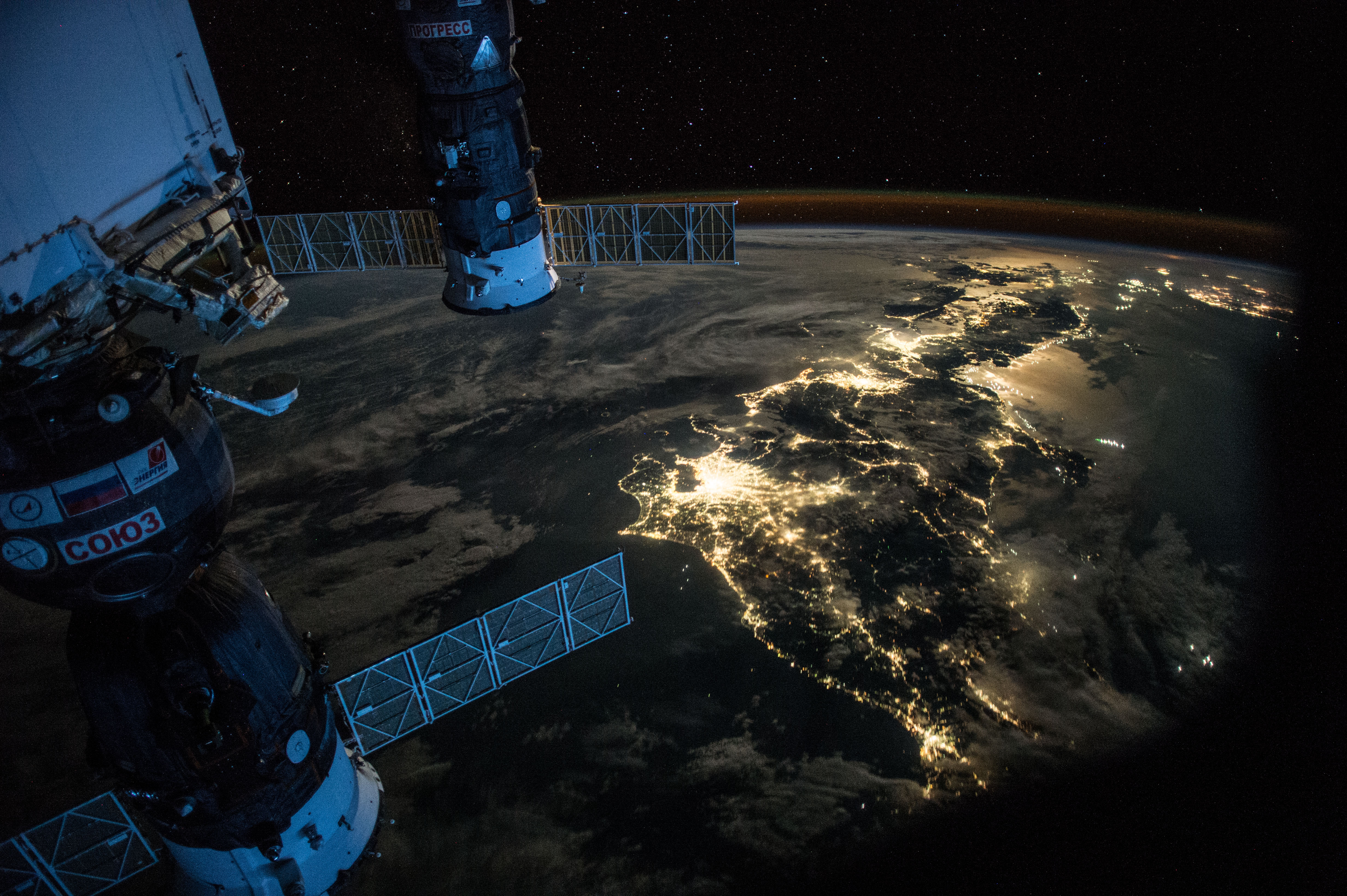 Night Earth observation of Japan taken by Expedition 44 crewmember Scott Kelly, with a Soyuz Spacecraft connected to the Mini Research Module 1 (MRM1), and a Progress Spacecraft visible.